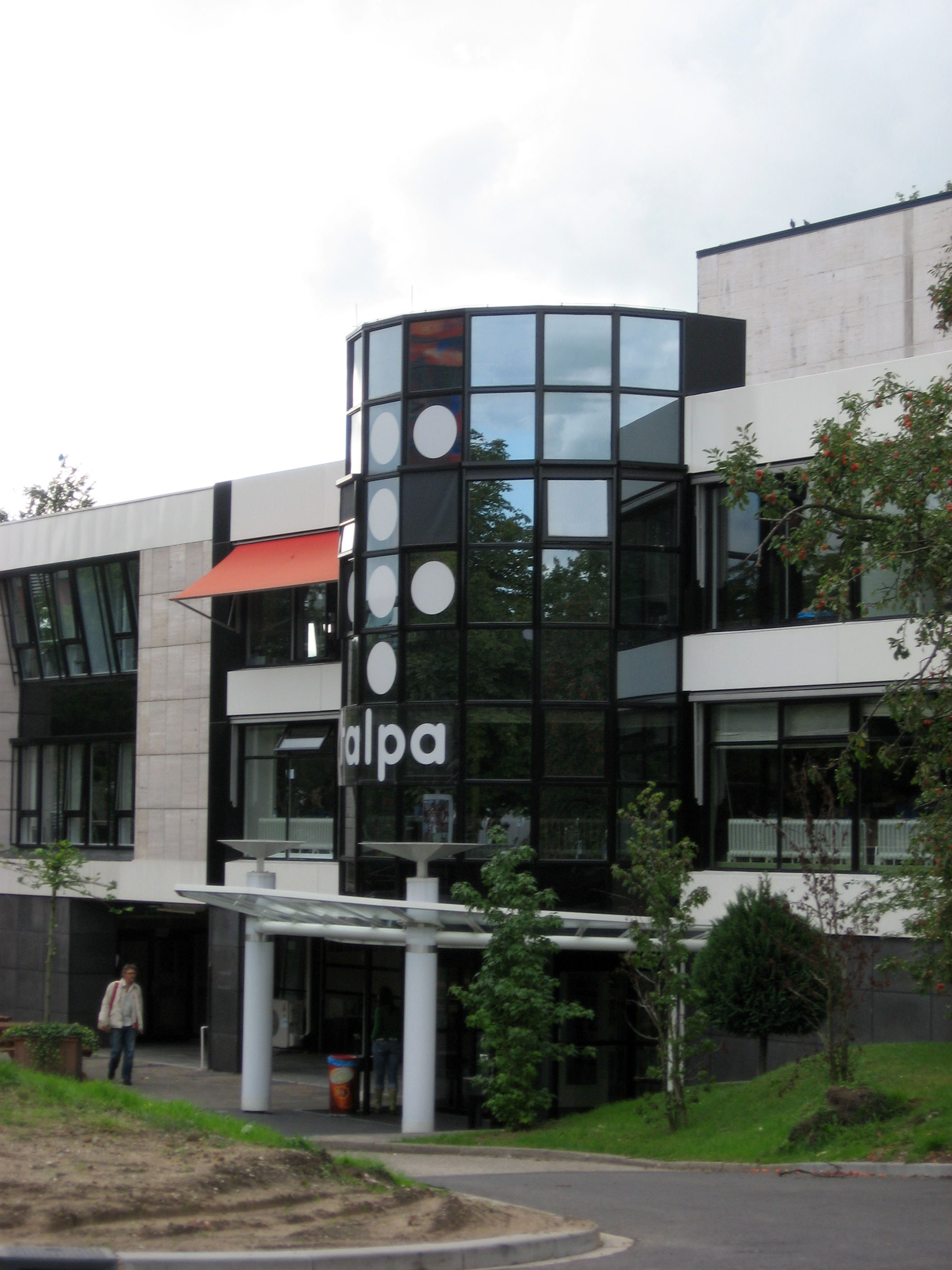 Building of the Dutch broadcasting company 'Talpa' at the Media park in Hilversum, The Netherlands.